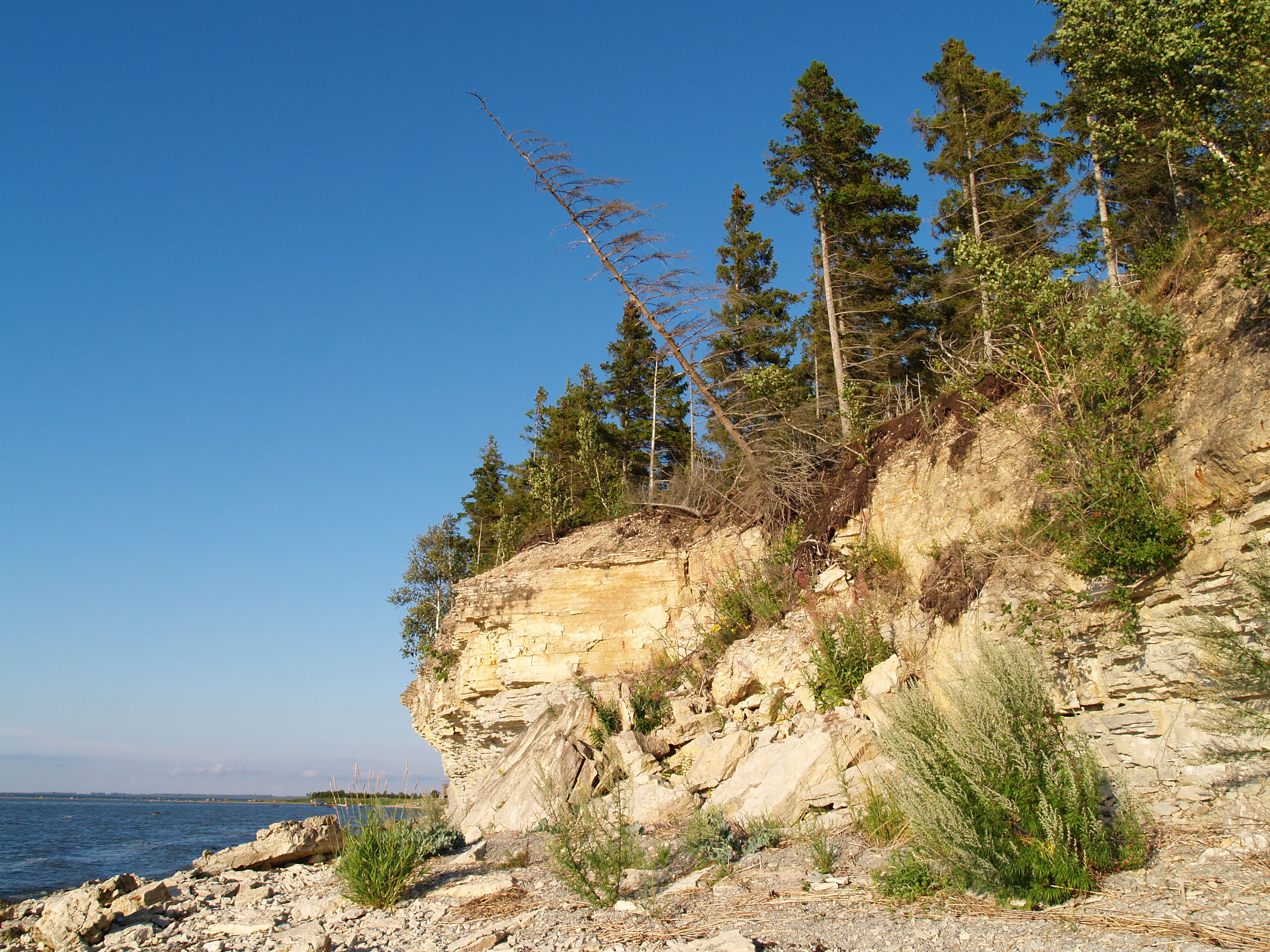 Cliff of Kesse in Kesselaid Estonia